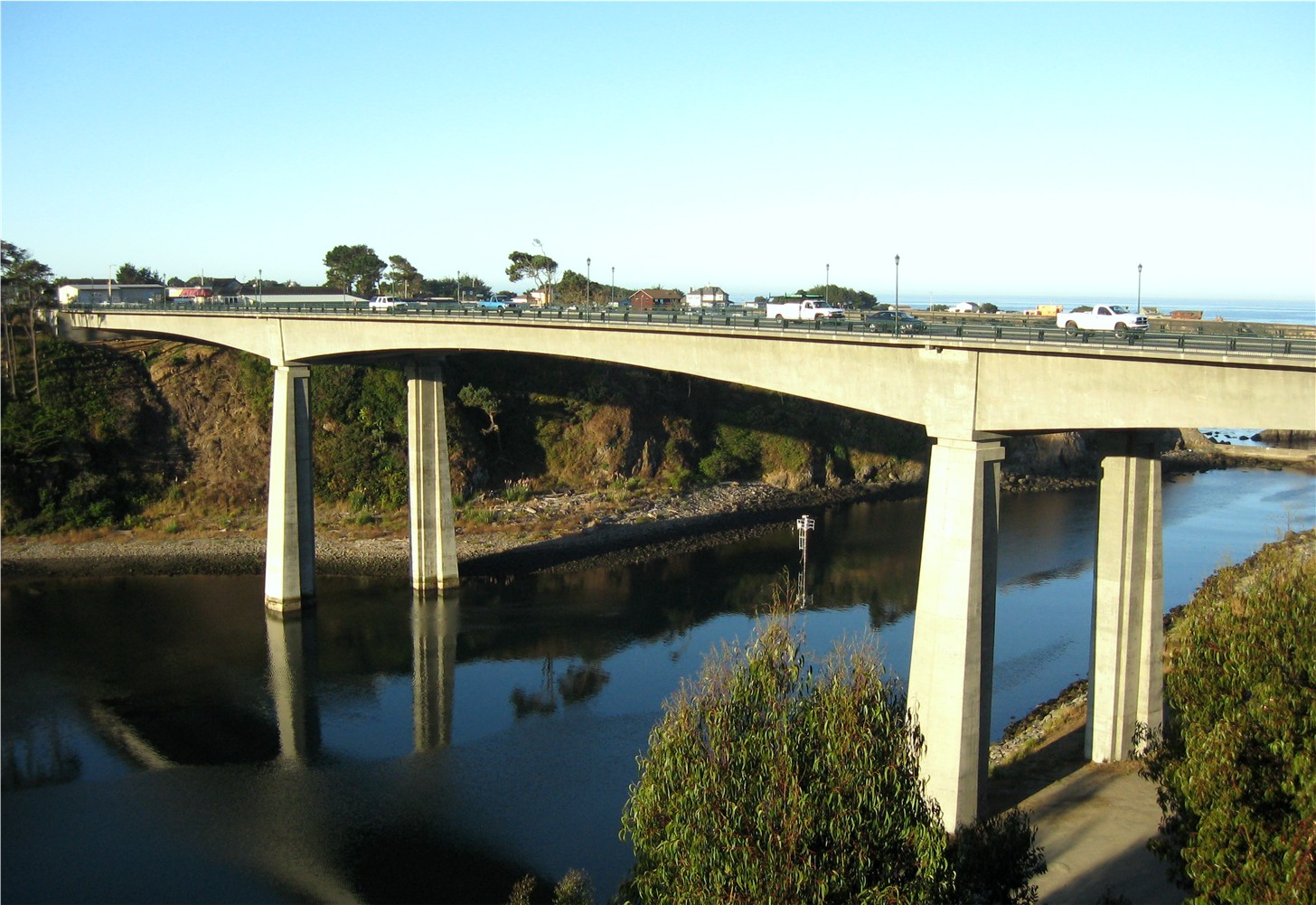 A new concrete bridge was built over the Noyo River in 2005, just South of Fort Bragg, California in Mendocino County.